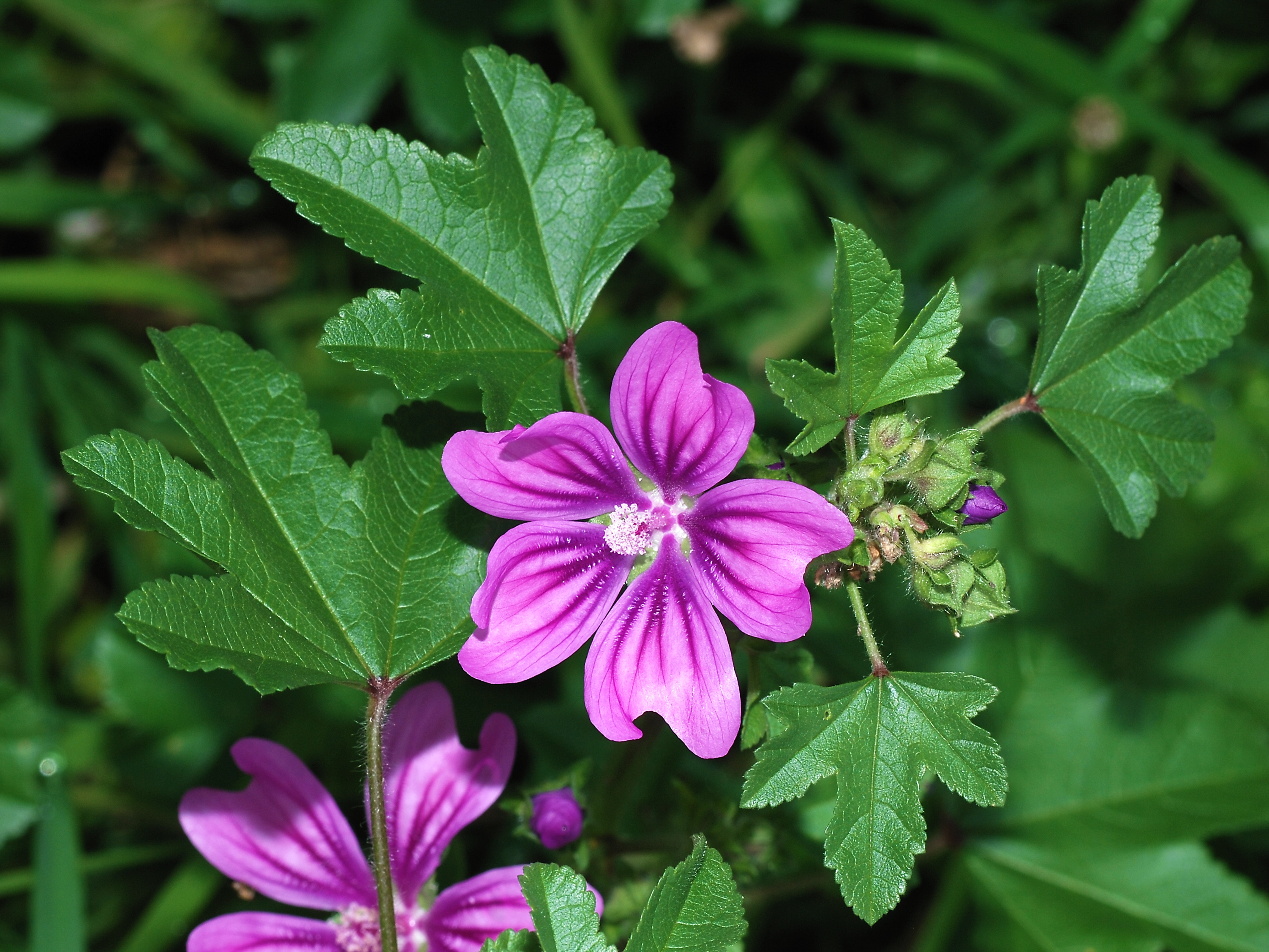 Common Mallow (Malva sylvestris)